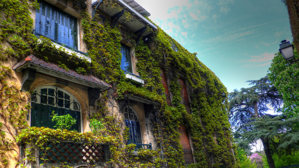 Photograph of a house of the Montsouris square, in the 14th arrondissement of Paris, using HDR.